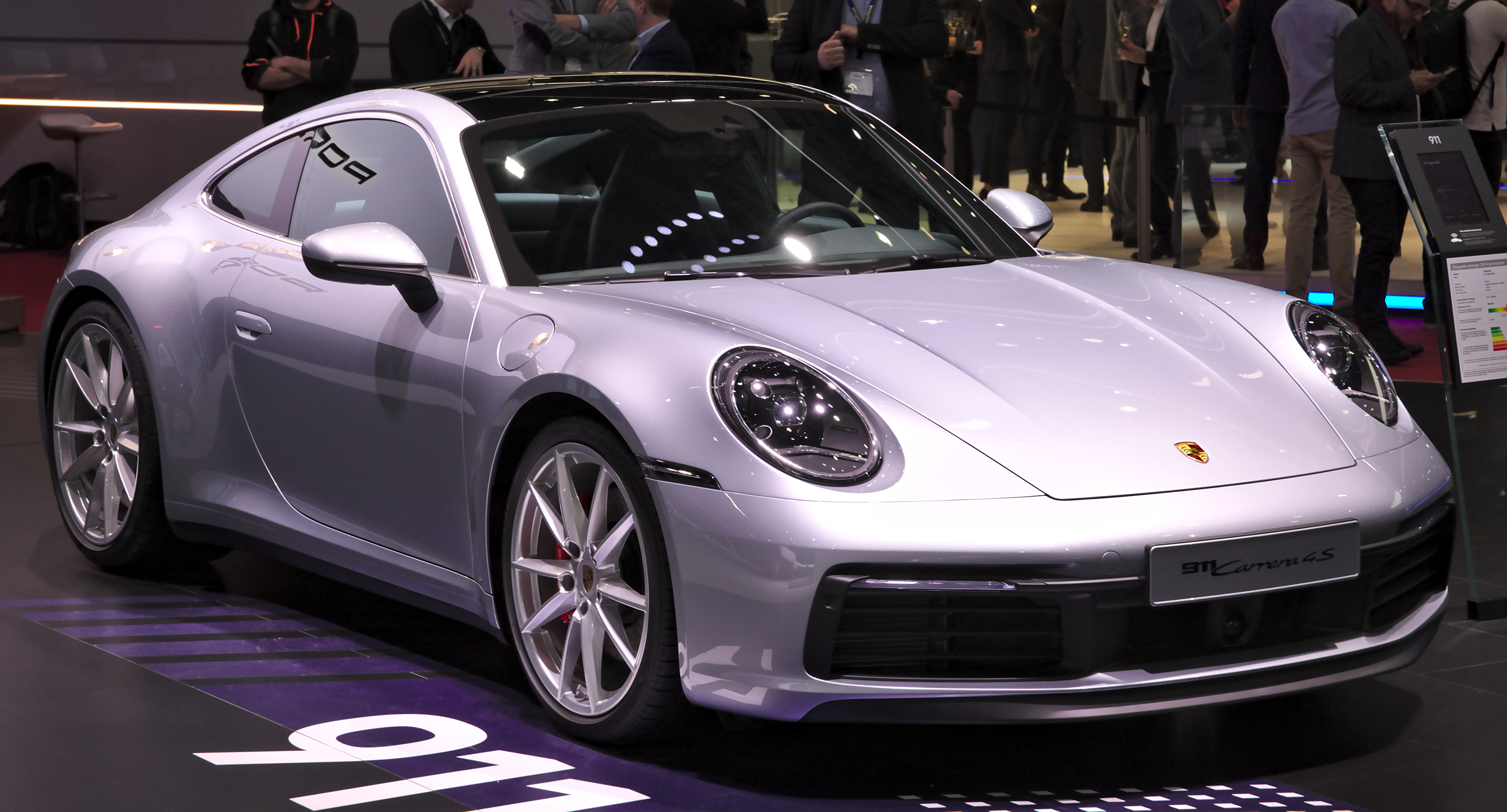 Porsche 992 Carrera 4S at Geneva Motor Show 2019